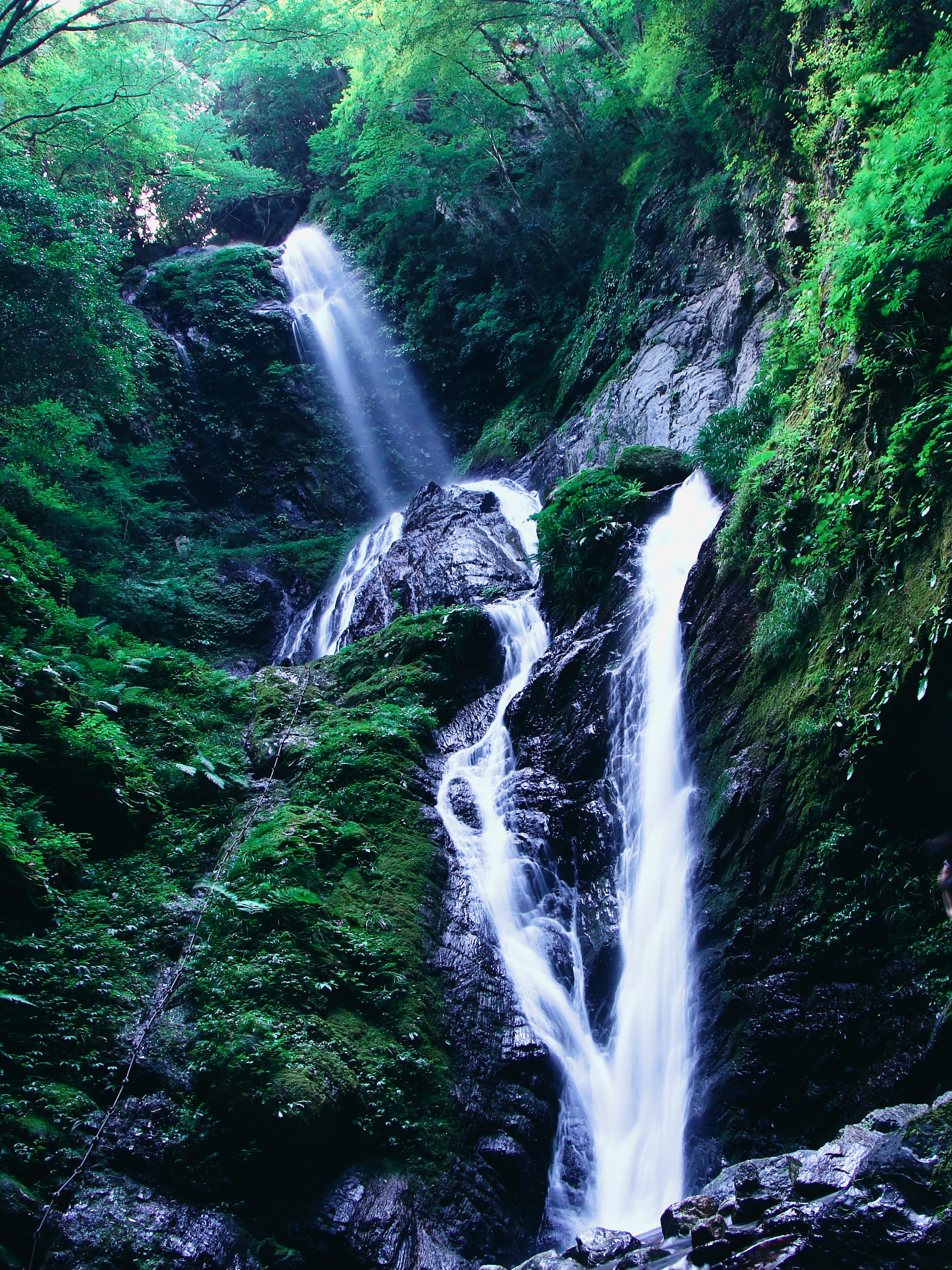 amagoi waterfalls